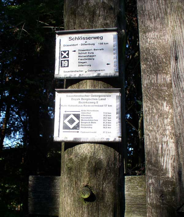 Hiking route signs of the Sauerländischer Gebirgsverein (SGV) near the Eschbach Dam in Remscheid, North Rhine-Westphalia, Germany